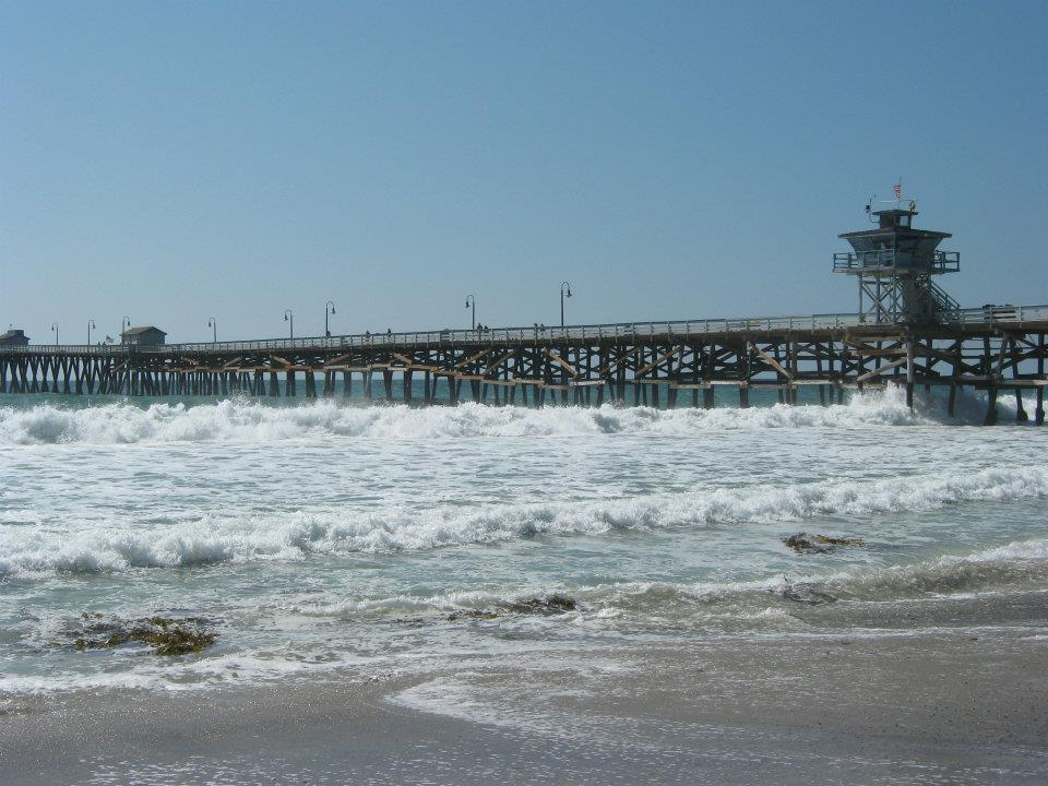 Pier of San Clemente, CA